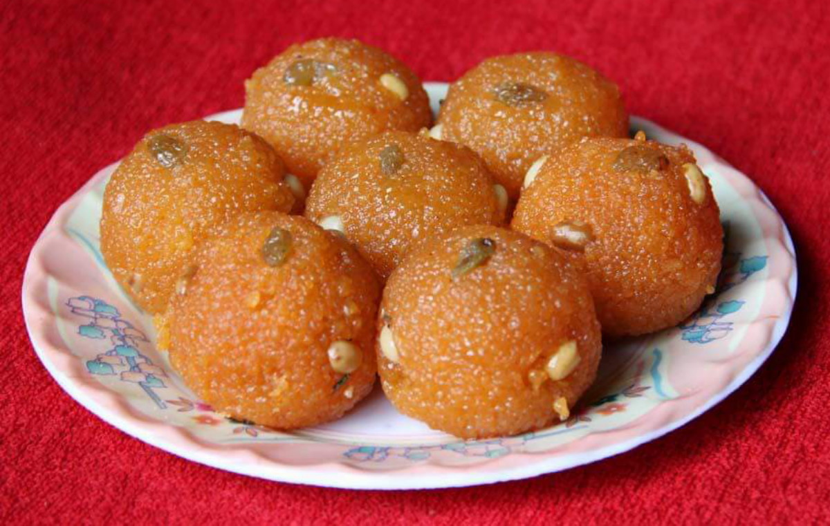 Motichur Laddu